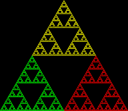 A Sierpinski triangle based on three smaller copies of a Sierpinski triangle